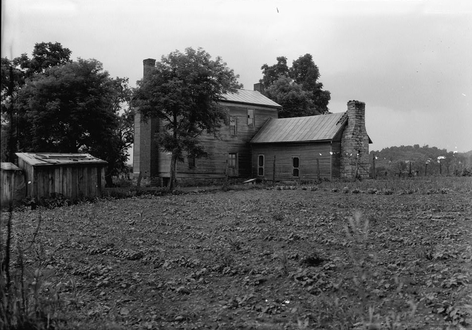 Rear view of Sabine Hill, the house of General Nathaniel Taylor and his family, in Elizabethton, Tennessee. 1936 photo.